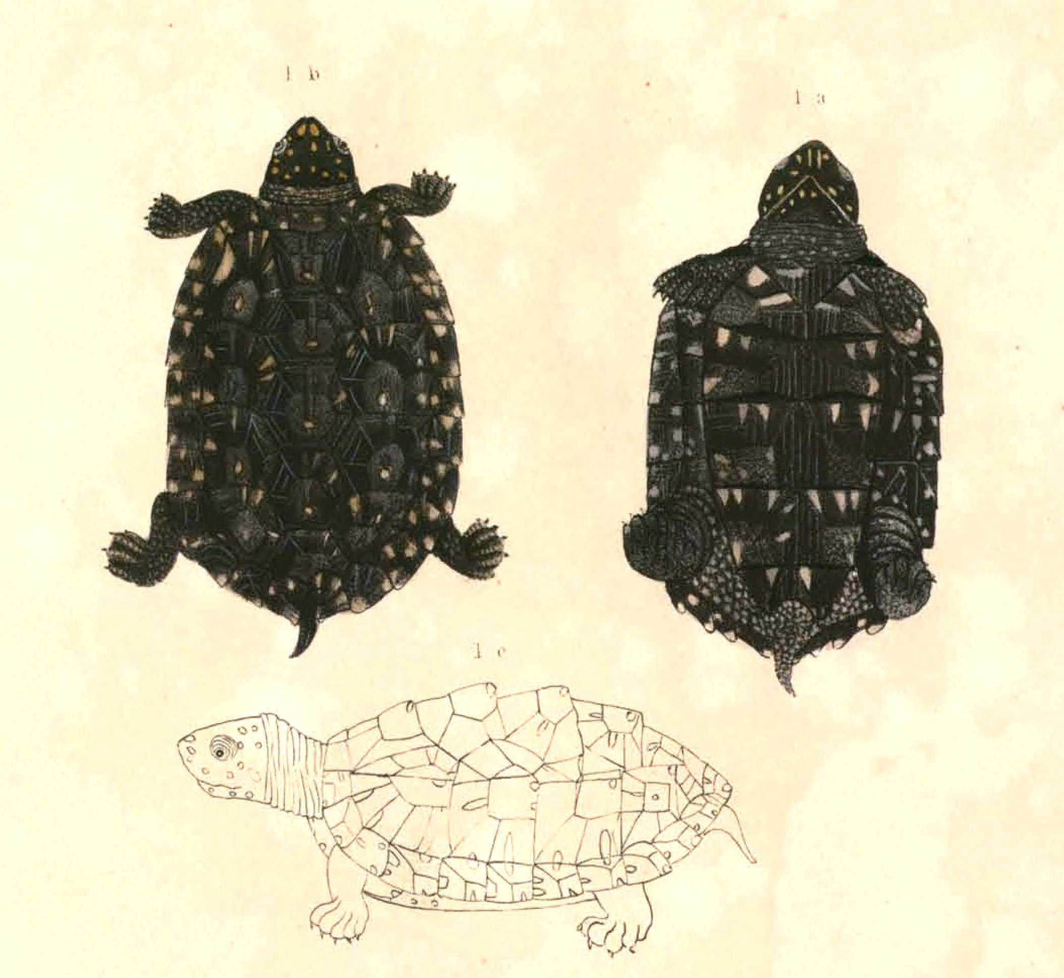 « Emys guttata » = Geoclemys hamiltonii (Black pond turtle)